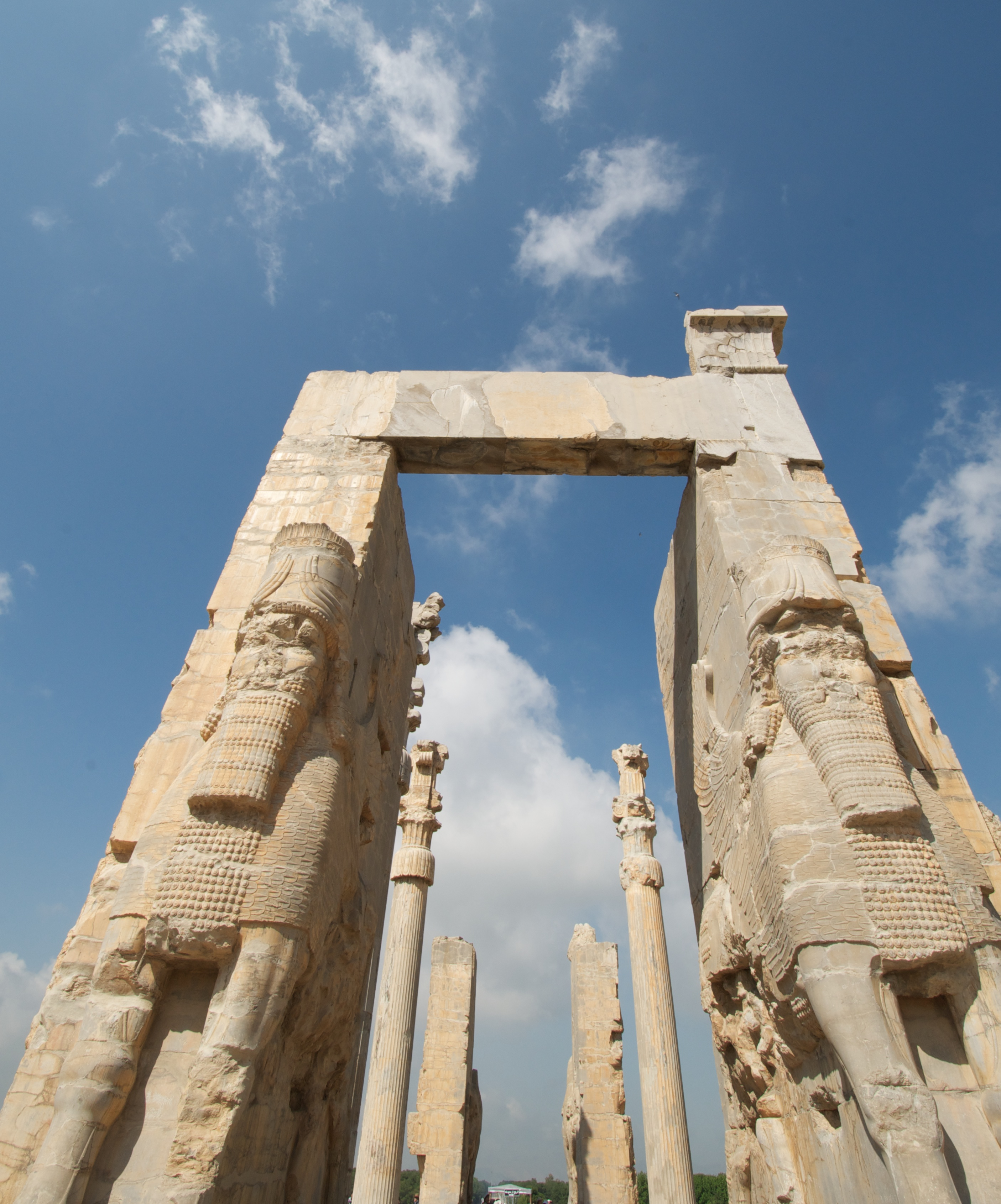 I didn't have my measuring tape or transit with me when we visited Persepolis, but I have a feeling these man-bulls are taller than two six-foot humans standing one atop the other. It's my understanding that in antiquity, before Alexander the Great and his soldiers and camp-followers burned and sacked the Palaces and other structures at Persepolis, these immense architectural sculptures were painted in a wide hue of colors. Of course, there would have been a set of immense doors between these figures, with other huge doors elsewhere opening onto other parts of the Palace complex. And apart from the magnificent doors, the ceiling of this and other buildings were of exotic wood, intricately carved. It's a mixed blessing I know, but with so much of the palace gone, especially rare items such ceilings, it's less likely the good people at UESCO will try a "last minute" salvage job by putting the whole complex, or parts of it., under a big, ugly cover of some sort, as UNESCO is doing with the churches at Lalibela, Ethiopia. There is such a thing as loving a world heritage site to death.